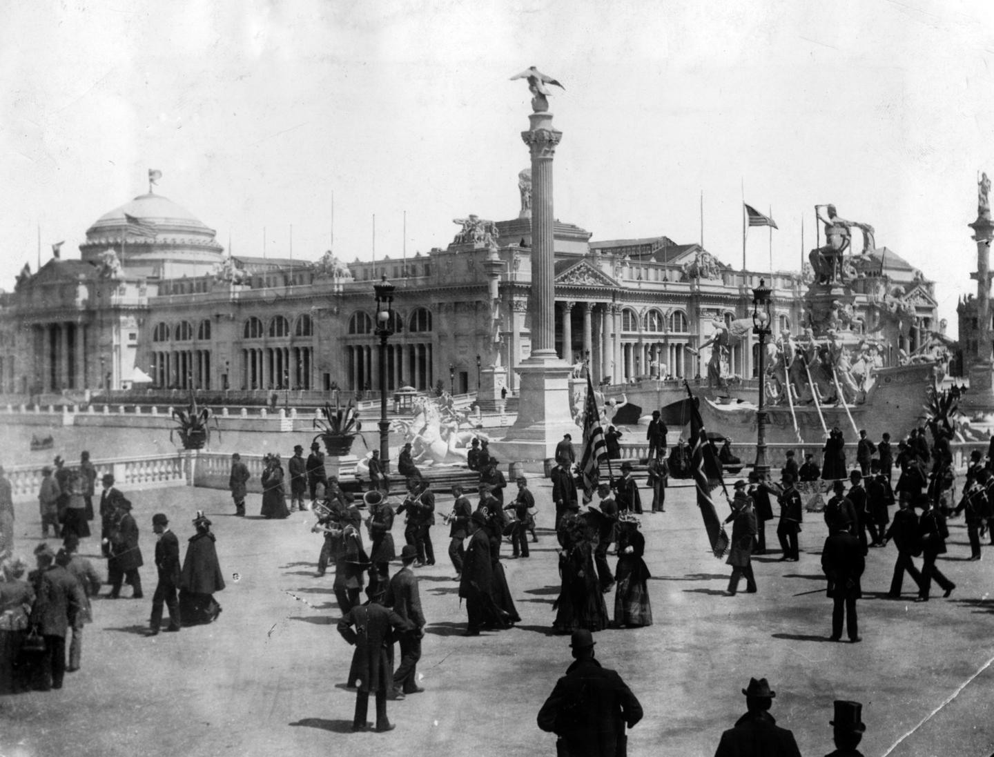 Agriculture Building and visitors at the 1893 Chicago World's Fair Columbian Expostion taken by the International News Service